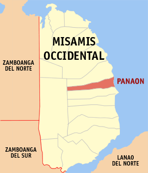 Map of the Misamis Occidental showing the location of Panaon